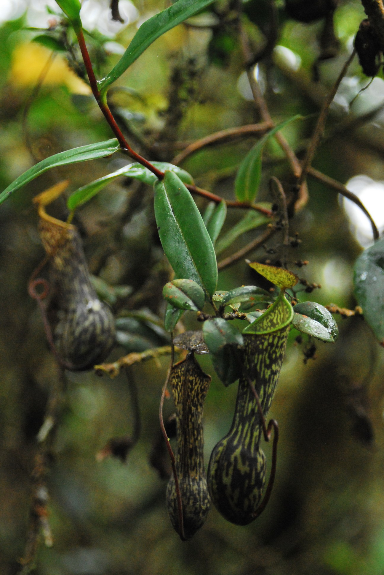 Nepenthes mikei, North Sumatra